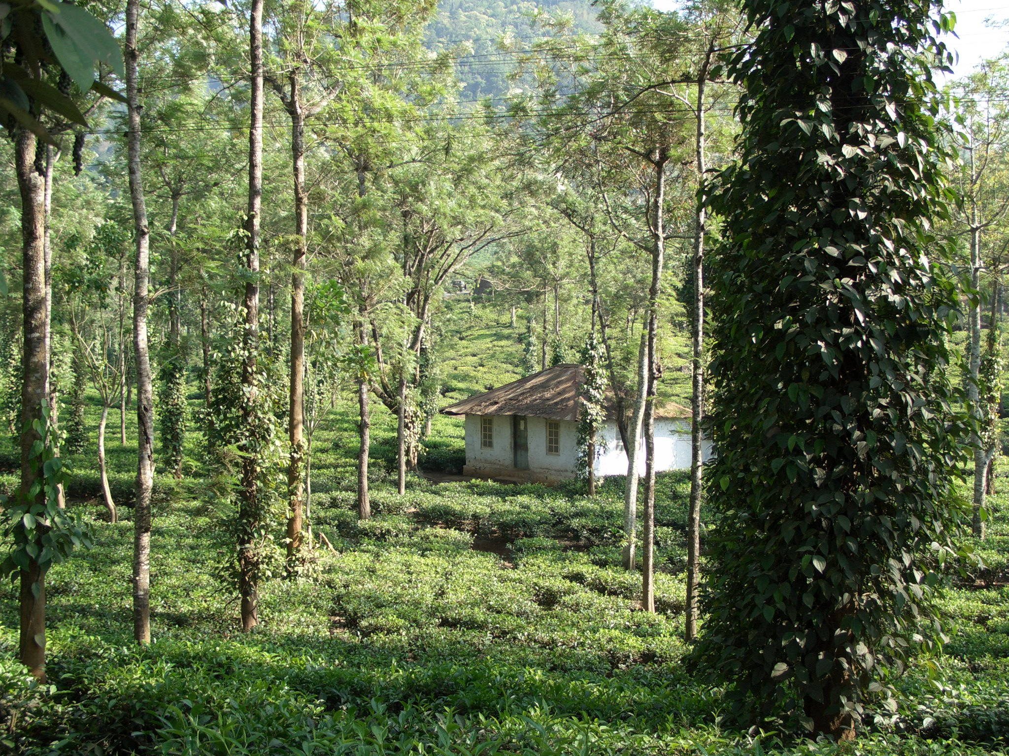 A tea plantation in India.